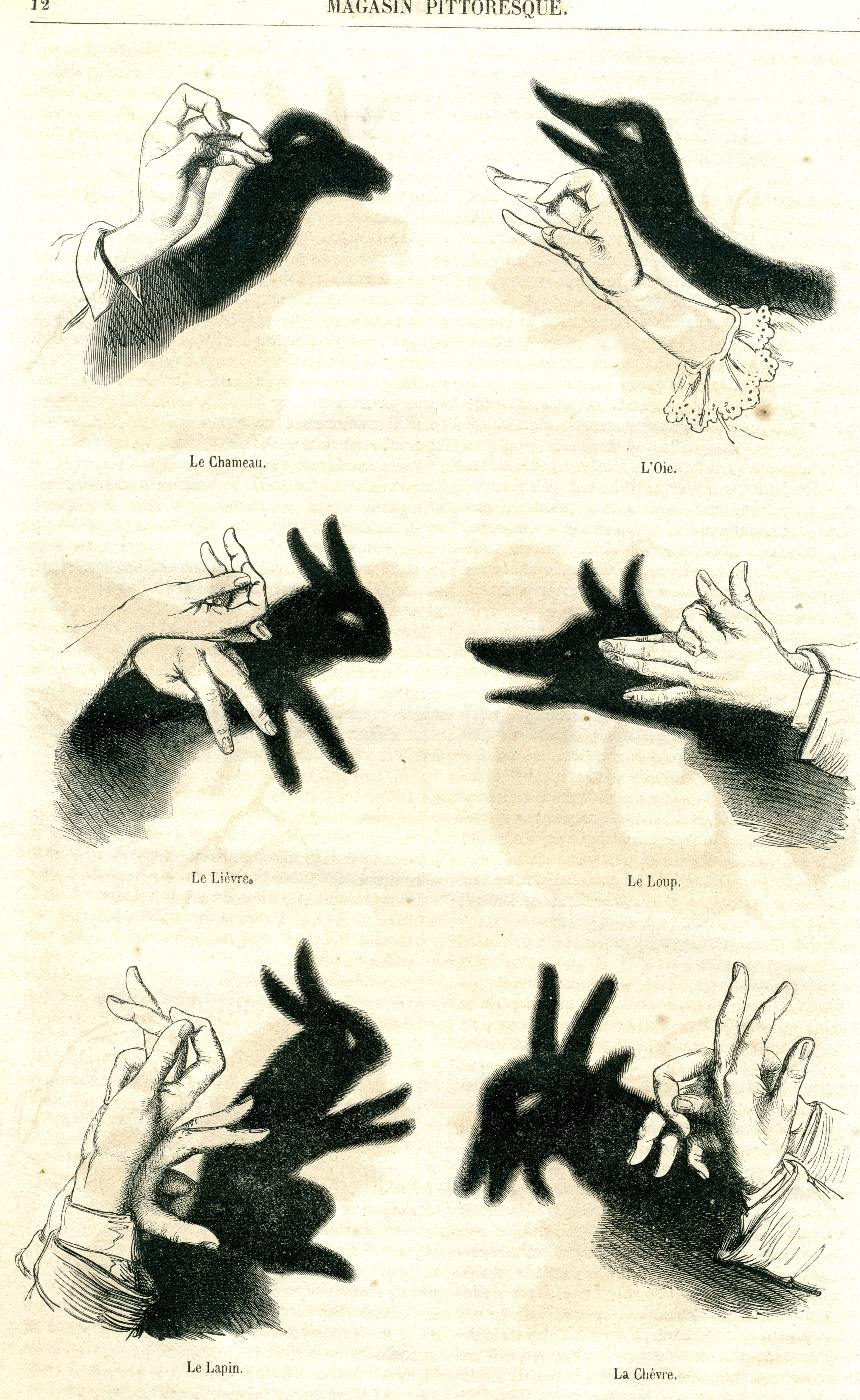 From "Le Magasin Pittoresque", 1861 Le Magasin Pittoresque This work is in the public domain in the United States because it was published (or registered with the U.S. Copyright Office) before January 1, 1925. Public domain works must be out of copyright in both the United States and in the source country of the work in order to be hosted on the Commons. If the work is not a U.S. work, the file must have an additional copyright tag indicating the copyright status in the source country. for works published (not simply created!) before January 1, 1923.